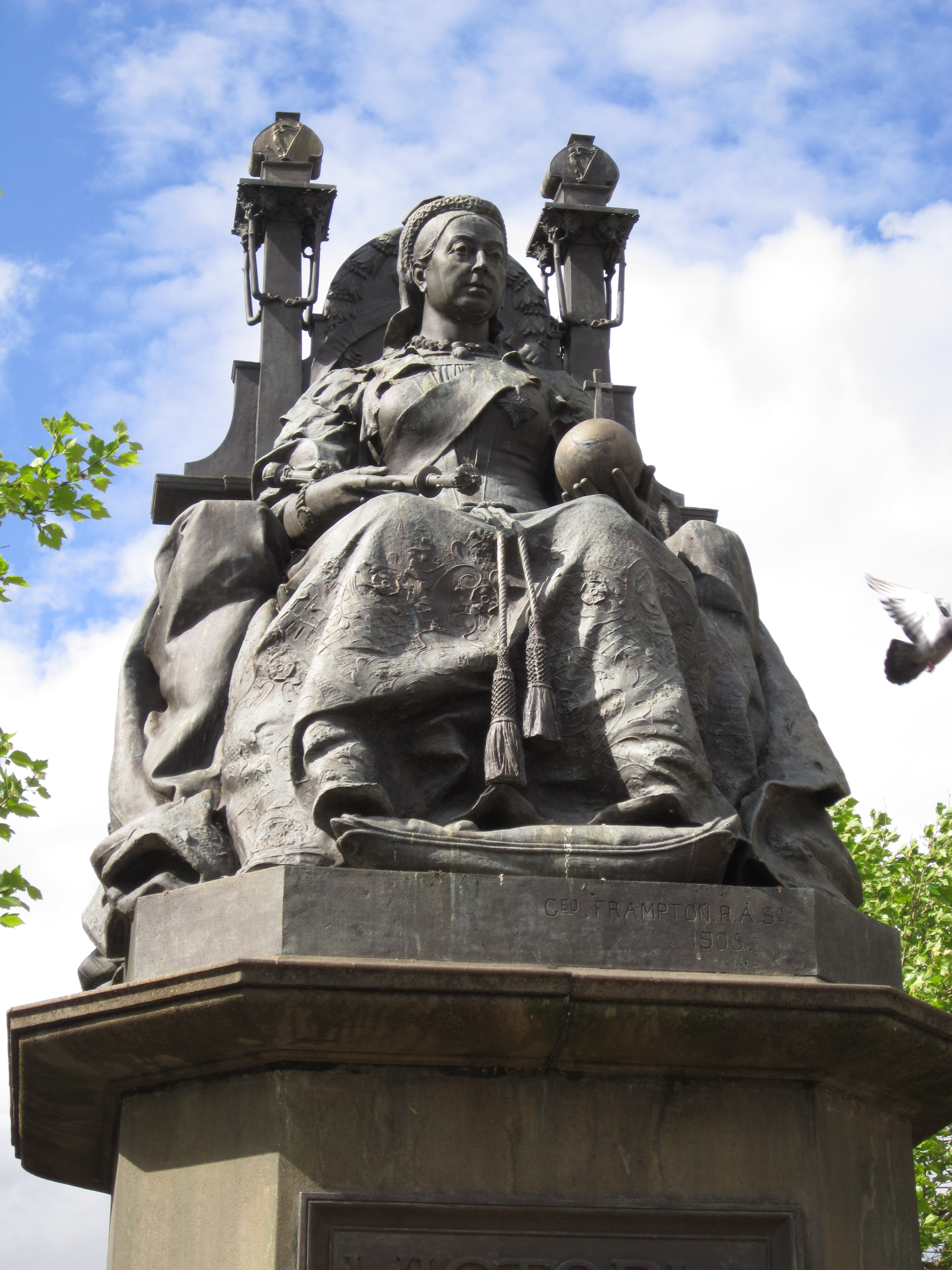 Queen Victoria statue, Victoria Square, St Helens, Merseyside, England.